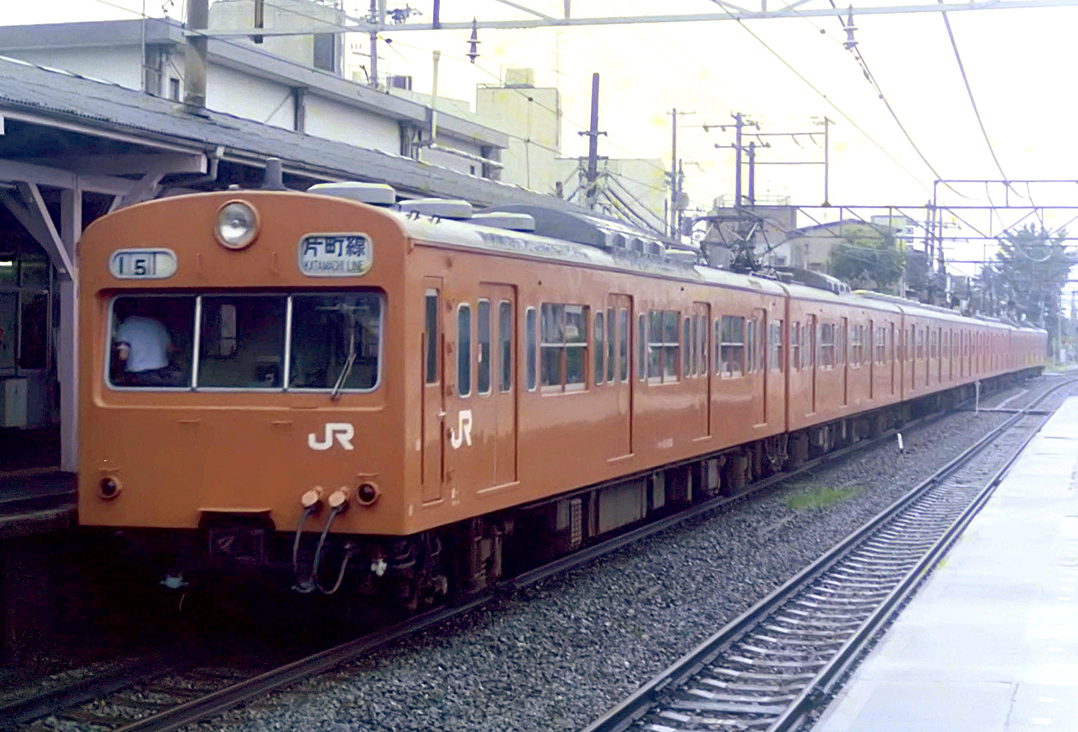 A JR West 101 series EMU led by KuMoHa 101-205 at Hanaten Station on the Katamachi Line